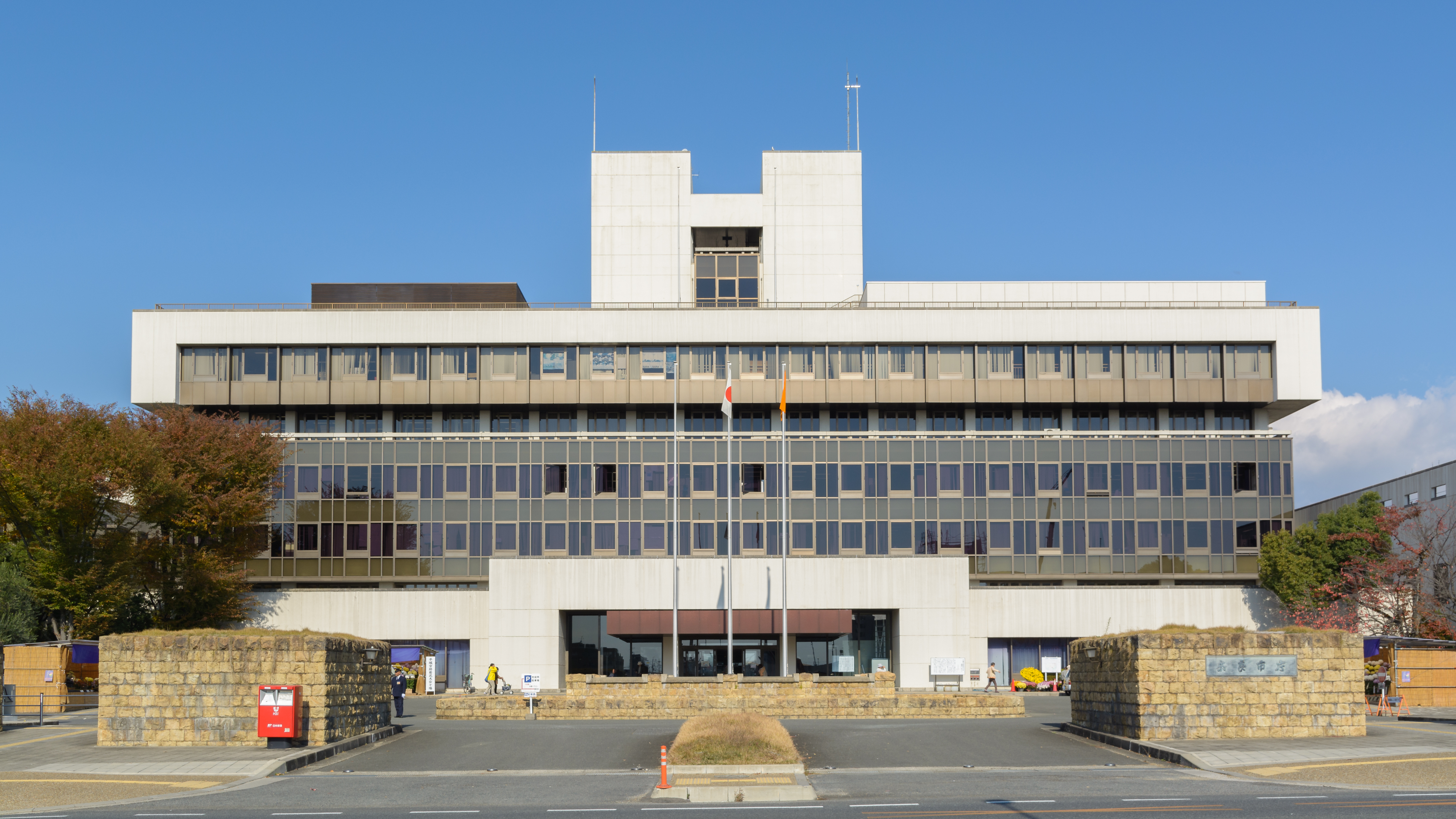 Nara City Office, in Nara, Nara Prefecture